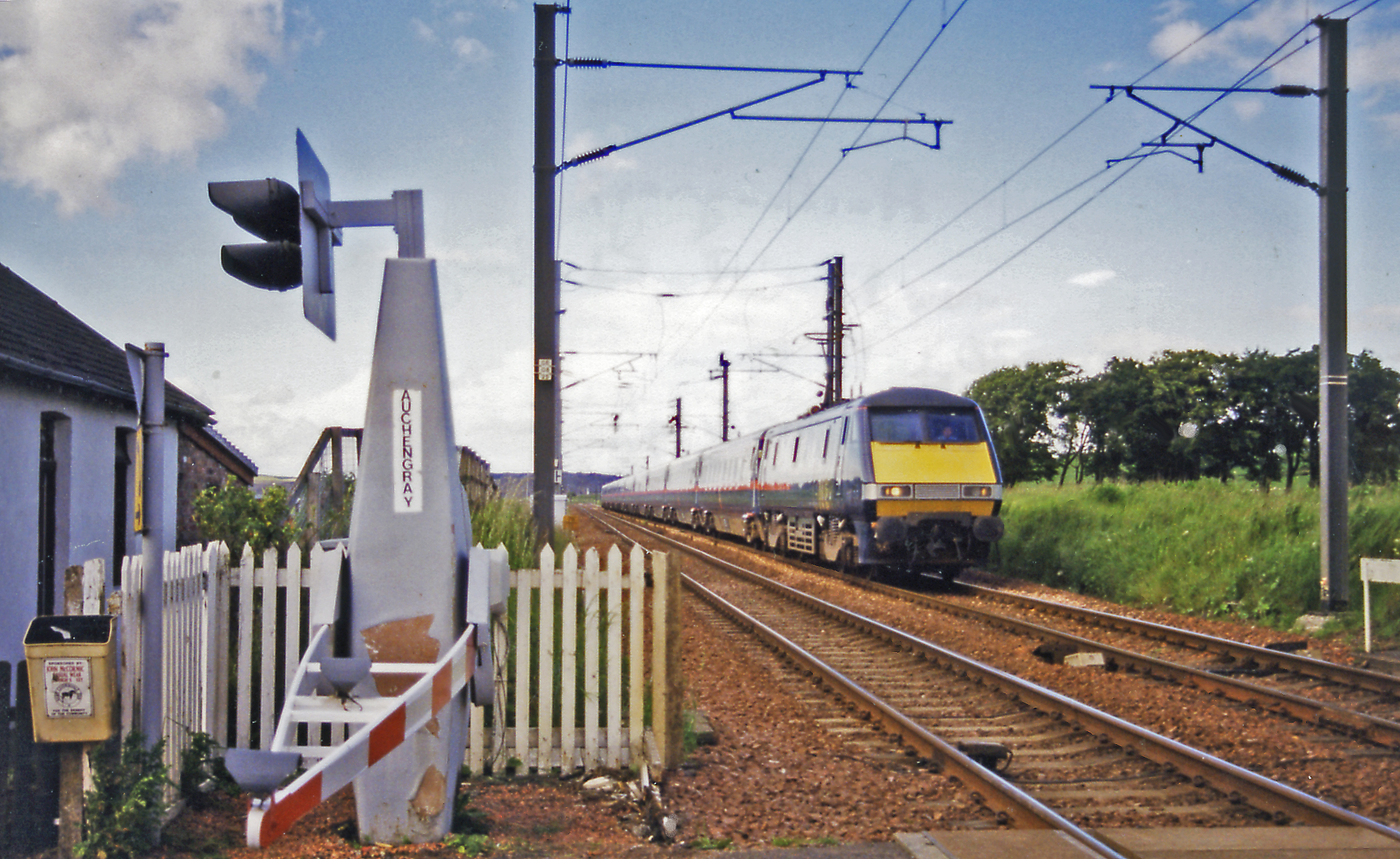 Site of Auchengray station, 1998. View northward, towards Edinburgh: ex-Caledonian Carstairs/Symington - Edinburgh main line. The station had been closed since 18/4/66. Until 6/9/65, the trains terminated at Princes Street station in Edinburgh. The line was electrified in 1989 and the train approaching is a southbound GNER Inter-City electric.